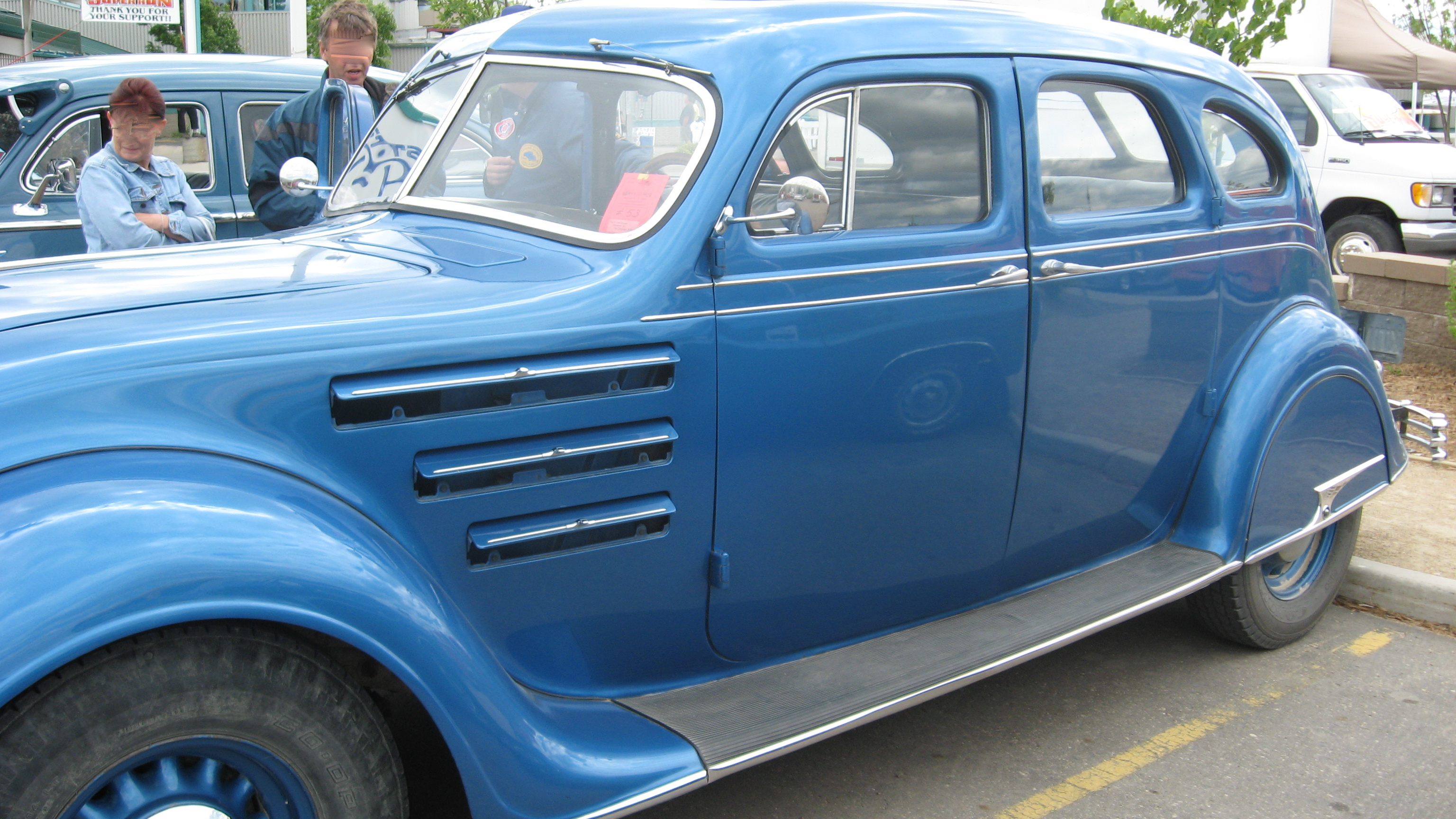 restored '34 airflow, shot at local car show/swap meet